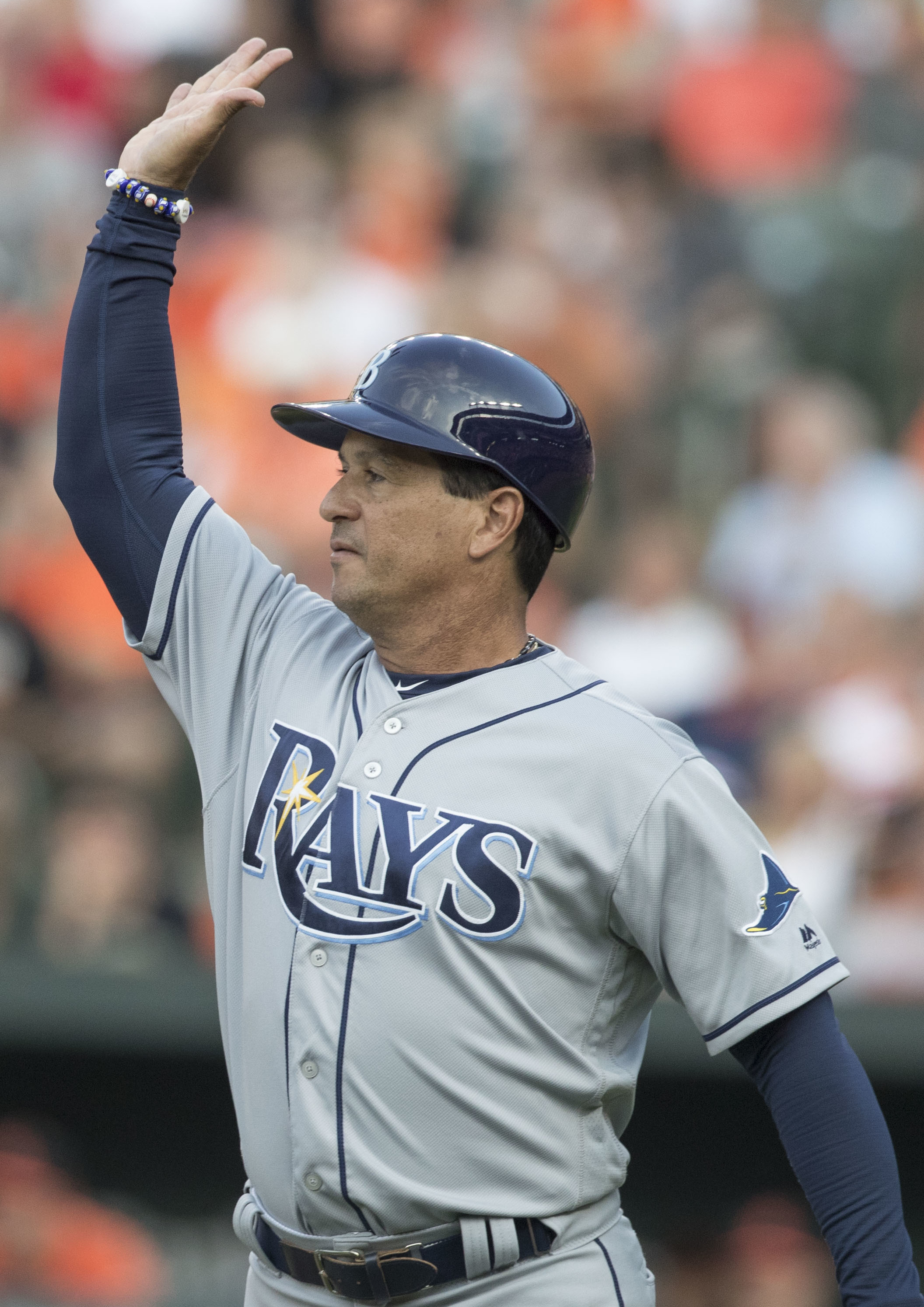 Rays at Orioles 6/30/17